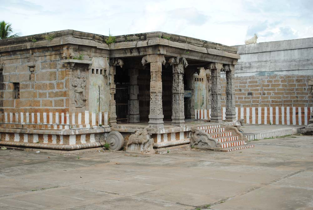 Devikapuram Amman temple Kalyanamandapam